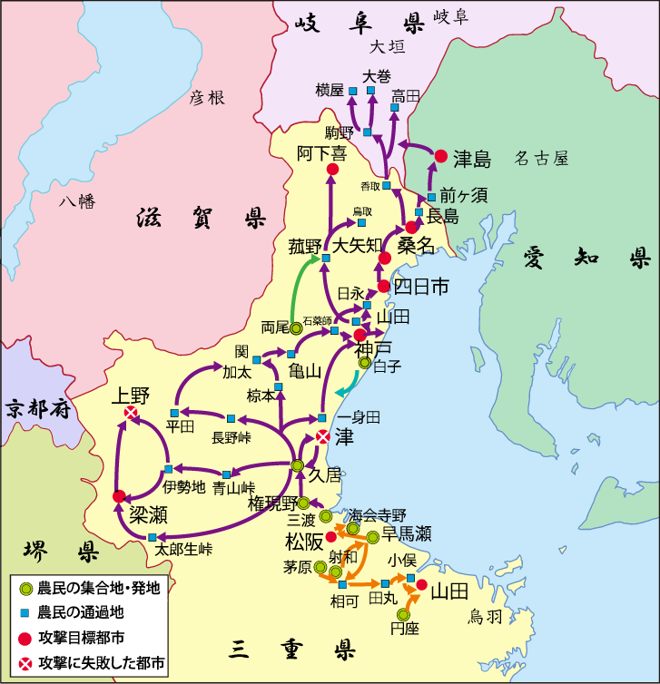 This is a map to explain the Riot of Ise or Ise Bodo in Mie, Aichi and Gifu prefecture, Japan.